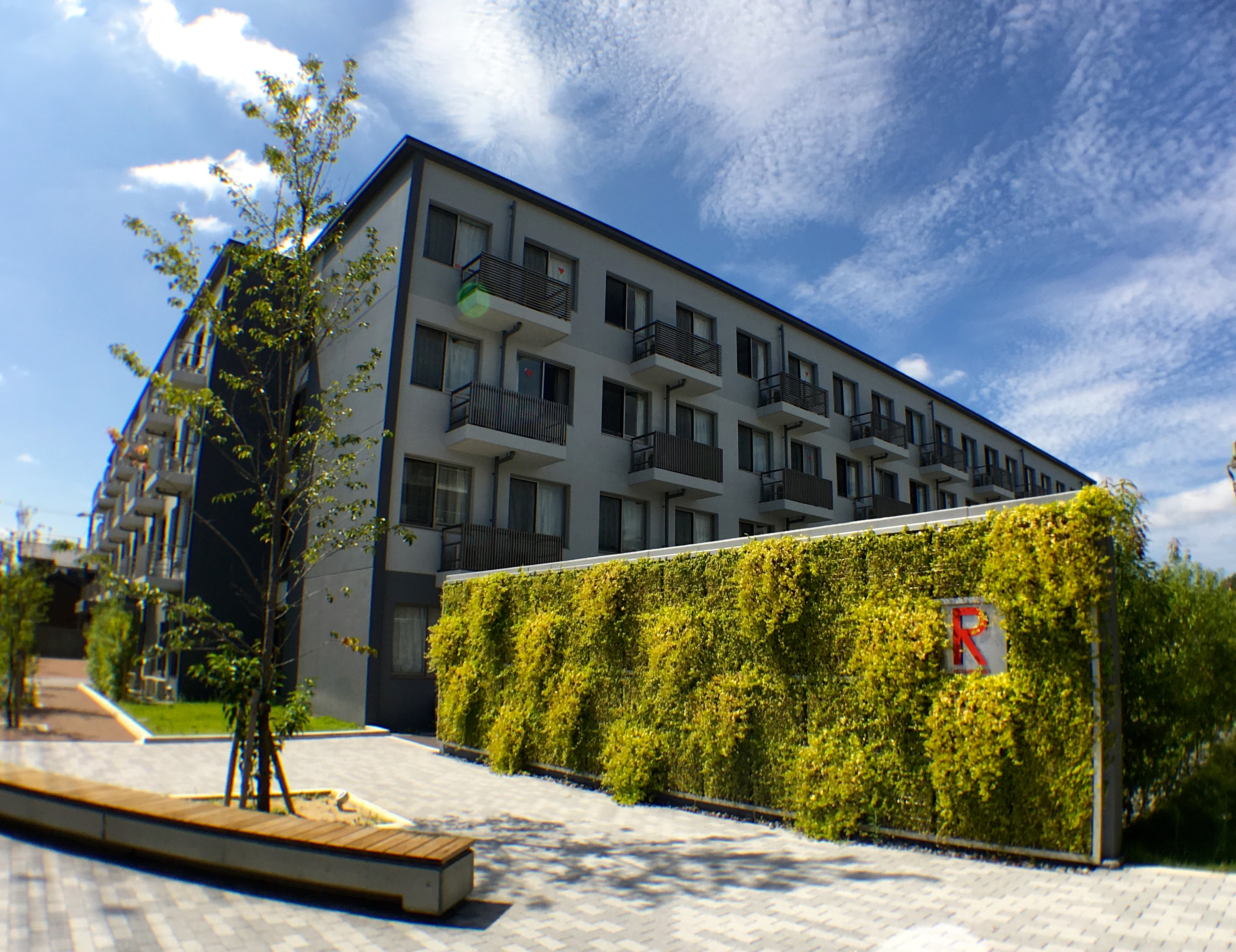 This is a dorm for international students of Ritsumeikan University